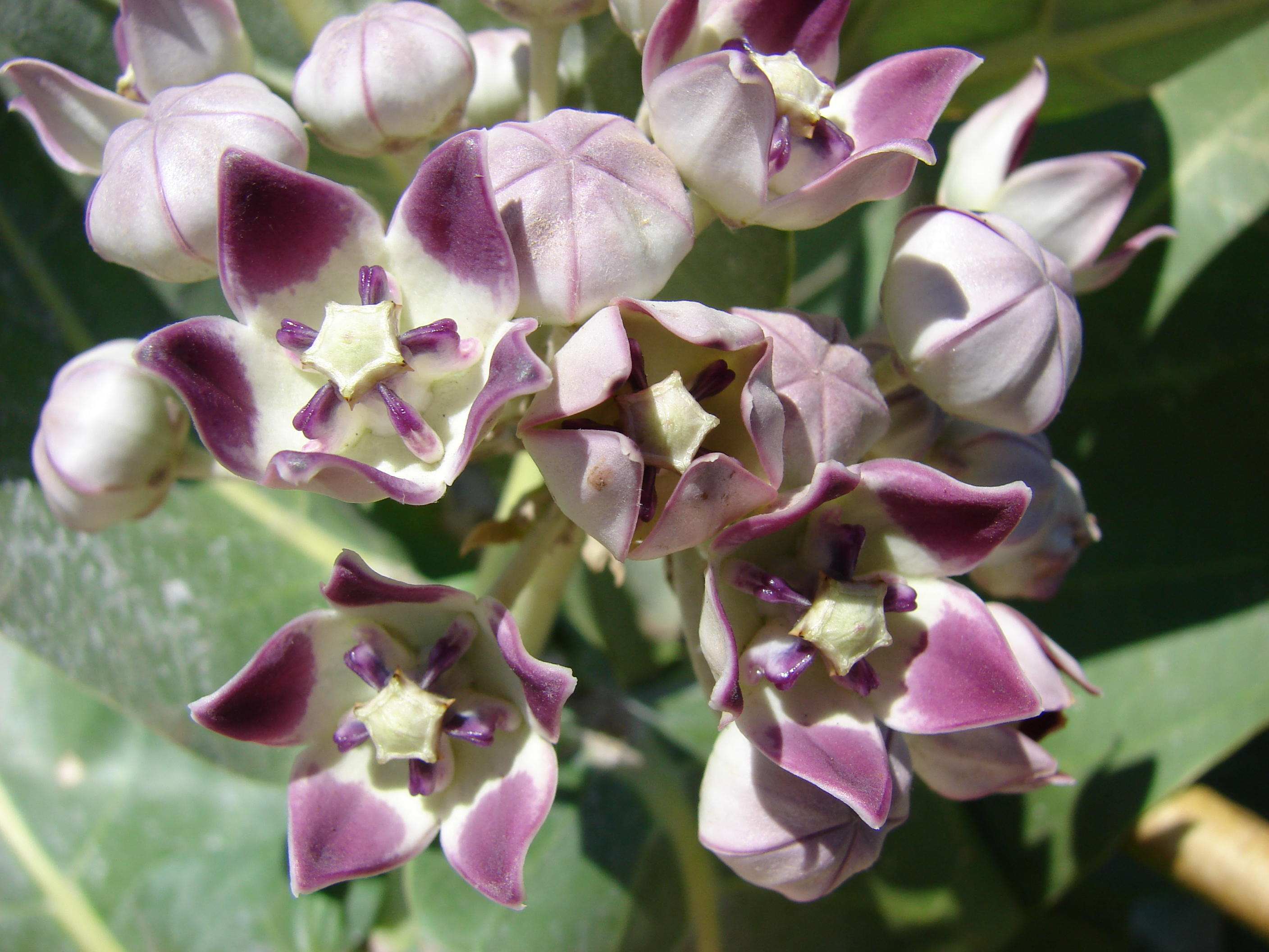 Calotropis procera (flowers). Location: Maui, Maui Lani Kahului